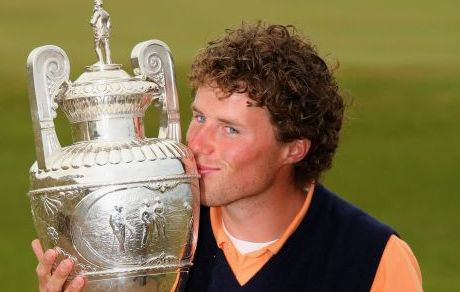 Reinier Saxton, winner of the British Amateur Championship 2008